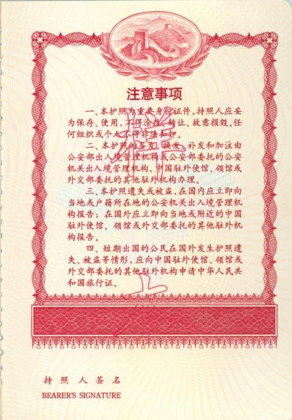 Note Page of the Chinese Passport (97-2 version).